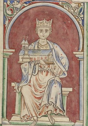 Henry I with Reading Abbey (British Library, MS Royal 14 C VII f.8v)